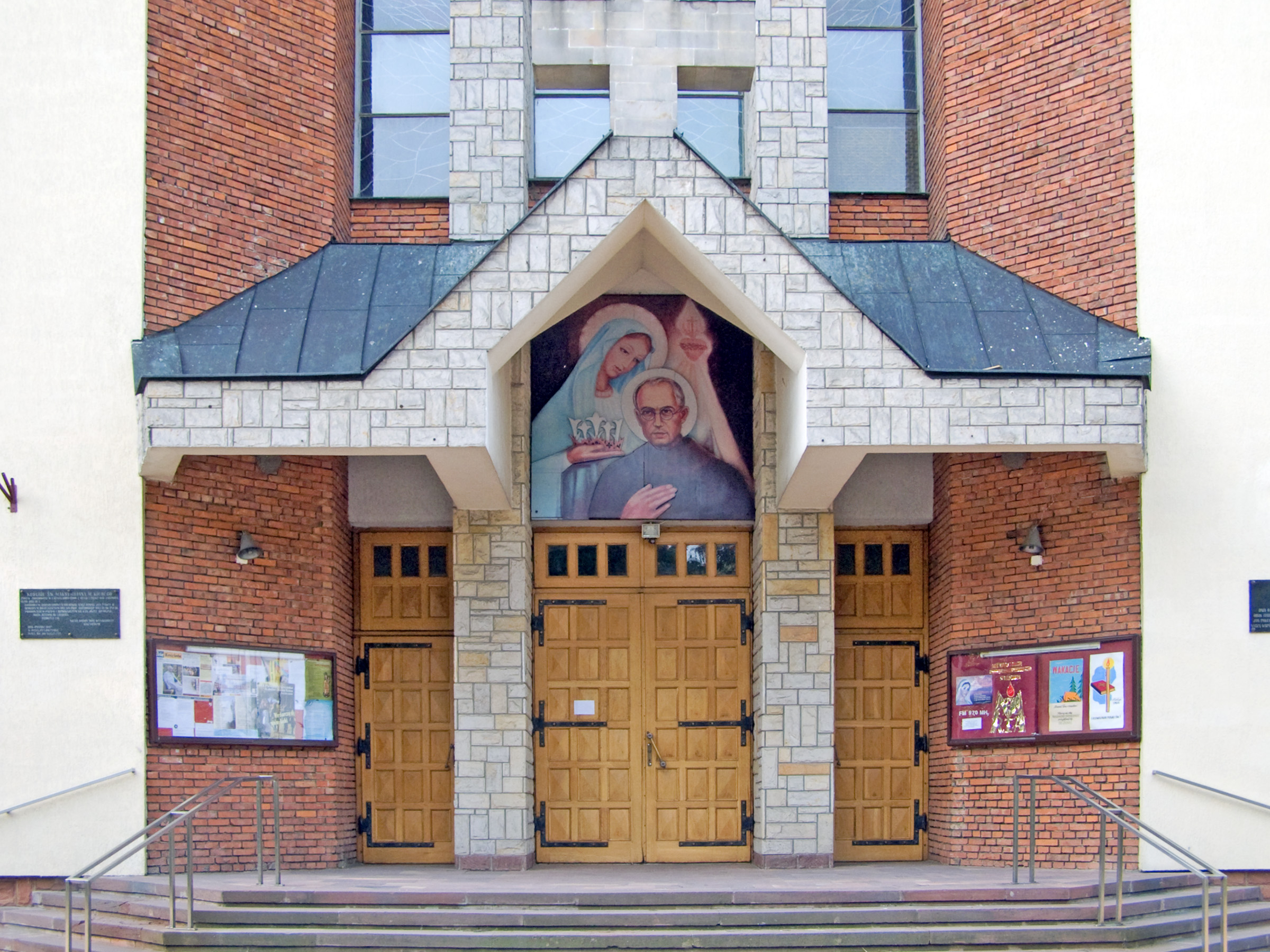 Doors at the main church of St.. Maximilian Kolbe in Lublin.